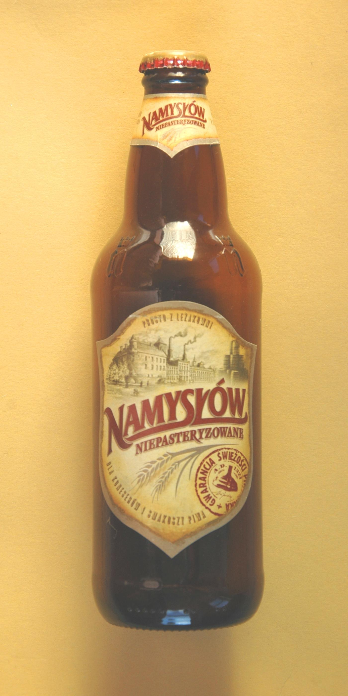 500ml bottle for Namysłów Niepasteryzowane ("Namysłów Unpasteurised") lager, brewed by the Namysłów Brewery, in Poland / Upper Silesia.